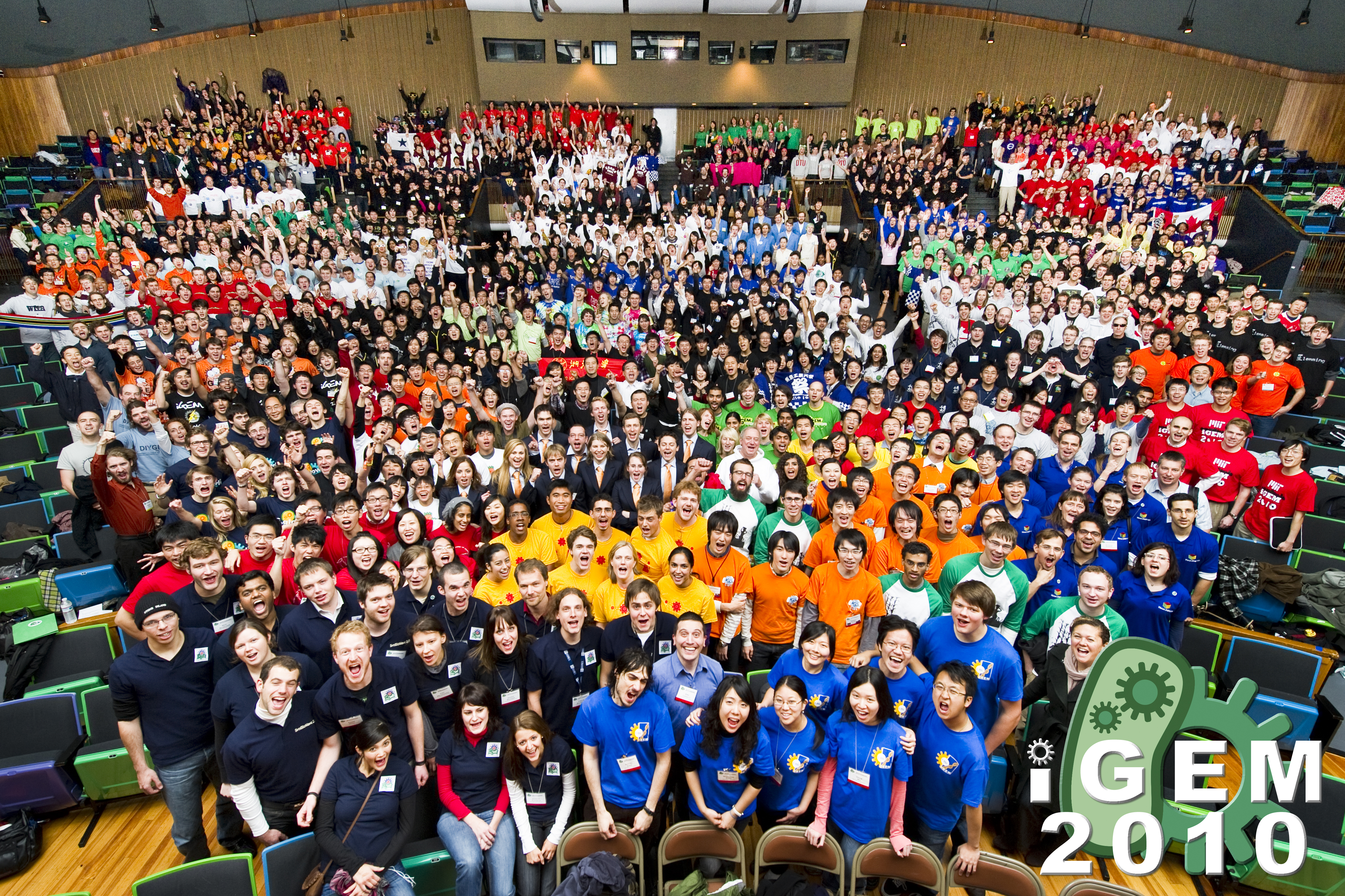 iGEM from above, 2010